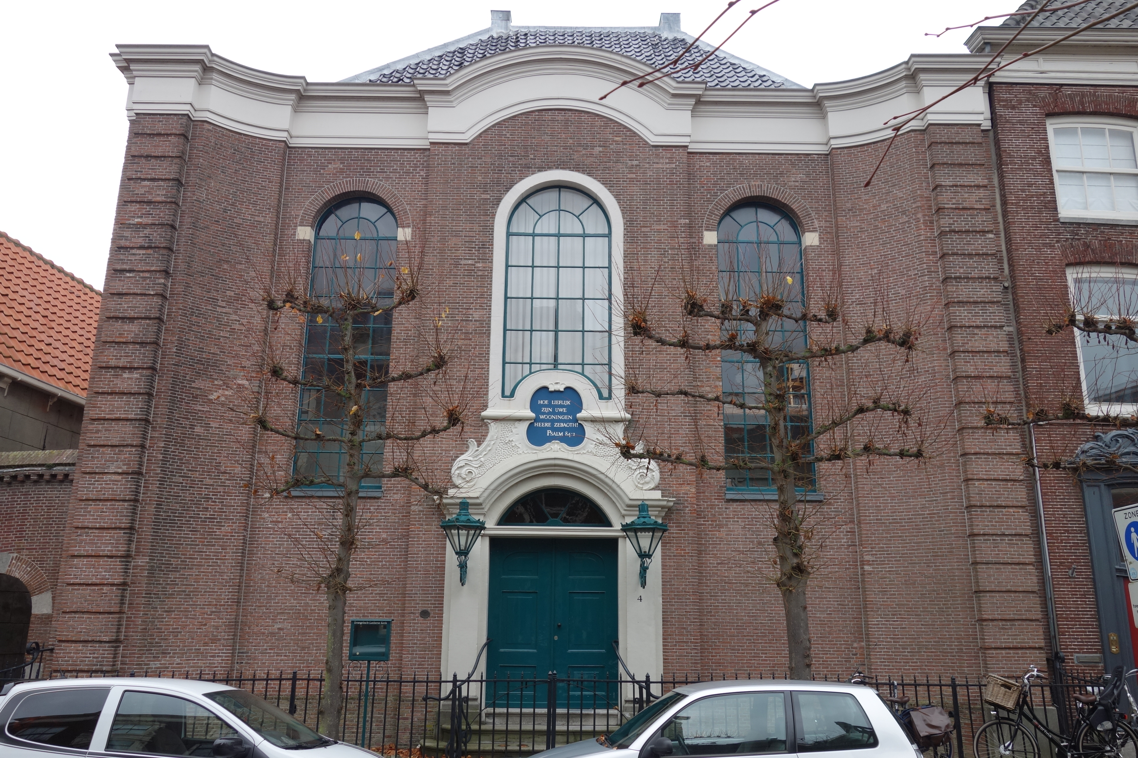 Rijksmonument nummr: 22548. Lutheran Church in Hoorn (North Holland, the Netherlands) at the Ramen.